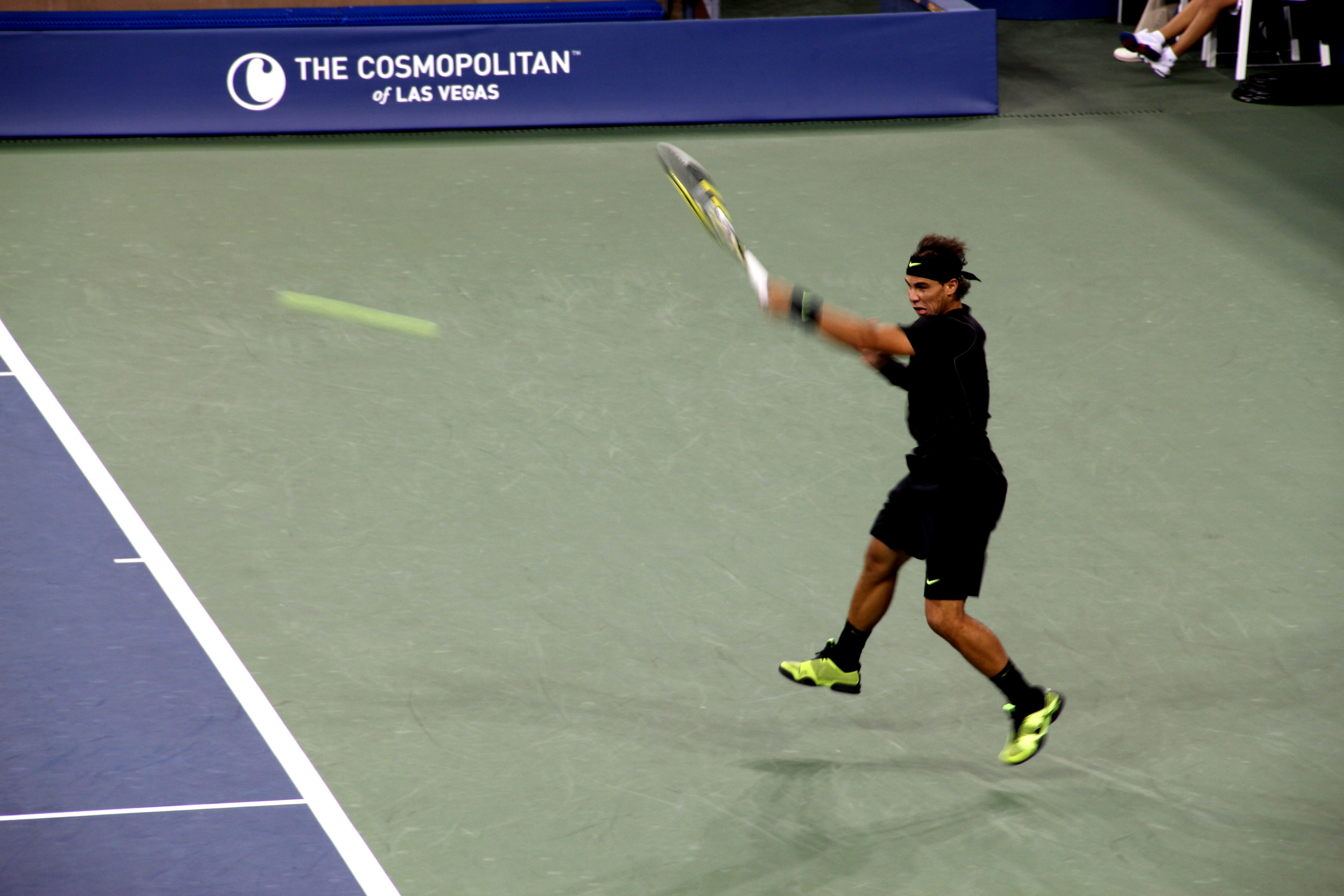 Nadal vs. Lopez match on Tuesday night, 9/7 at the US Open. The Cosmopolitan is in New York for the 2010 US Open, inviting attendees and guests to experience signature views from our Overlook and in our custom designed suite with prime-stadium seating. For more information on The Cosmopolitan visit